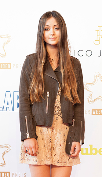 Jasmine Thompson at the Webvideopreis 2015.